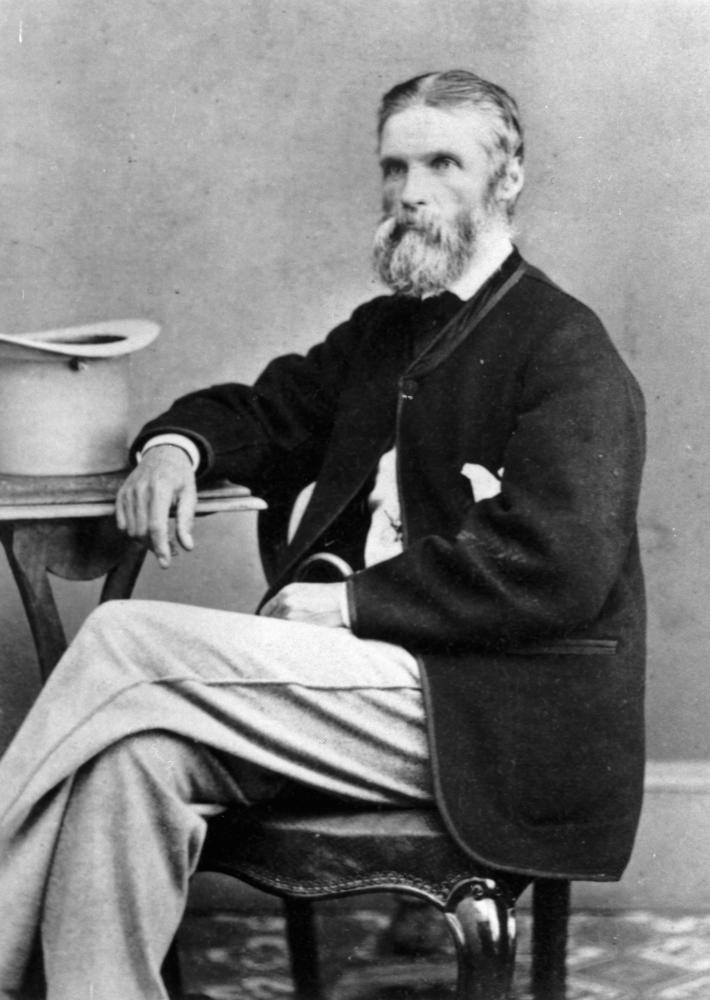 Portrait of Thomas Archer the First of Woolmers, 1790–1850, member of parliament of Tasmania, pastoralist and public servant, owner and founder of world heritage listed Woolmers Estate. This photo is a digital scan of an item held by the John Oxley Library, of the State Library of Queensland.